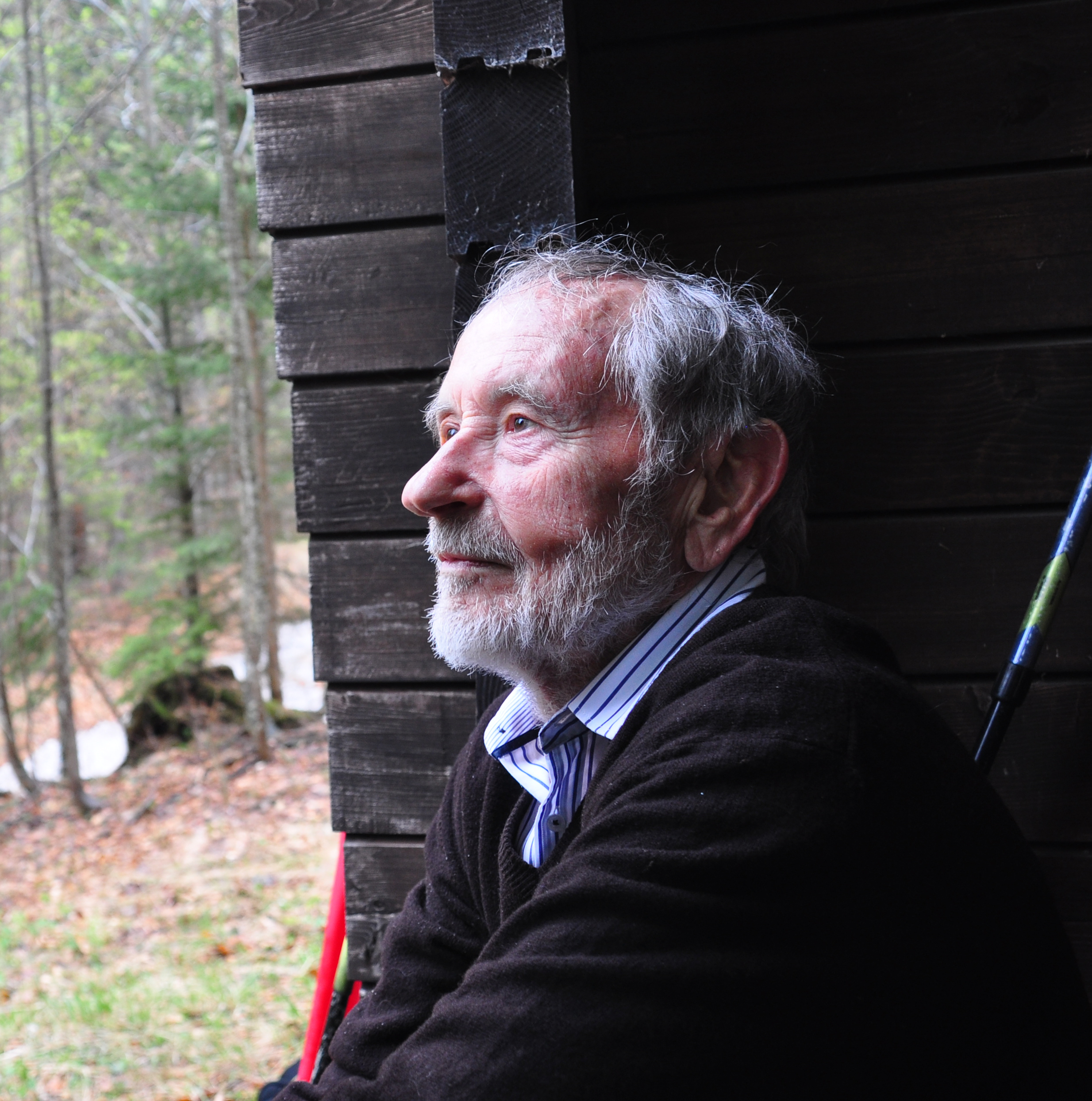 Depicted person: Ernst Rudolf Hildebrand – Austrian architect